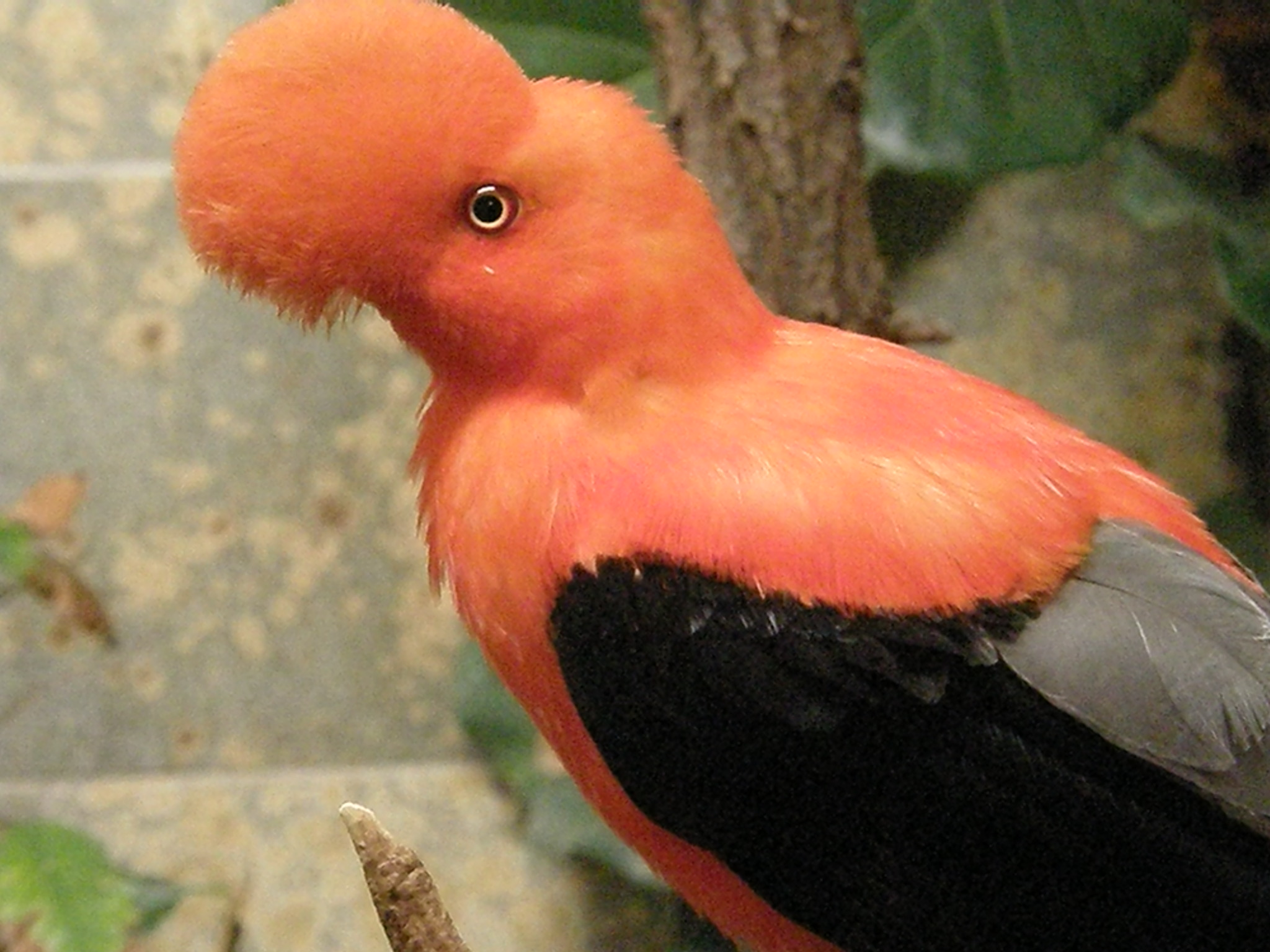 Andean Cock-of-the-rock (Rupicola peruviana). Male at Wuppertal Zoo, Germany.